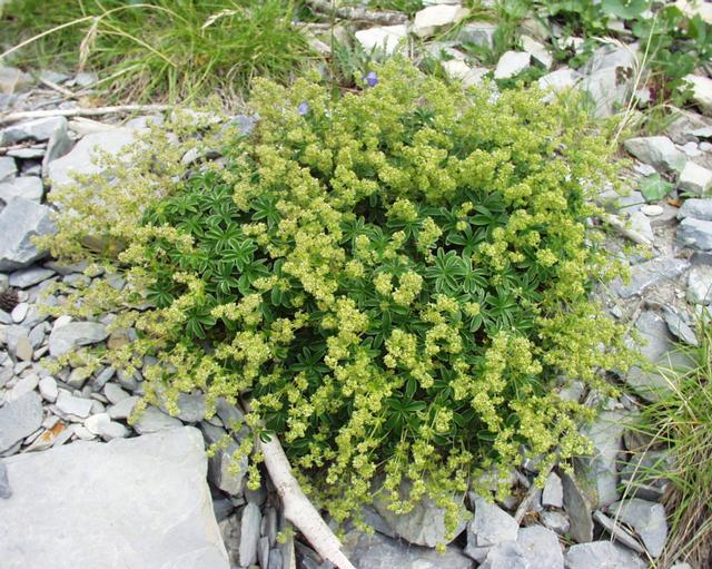 (en) Alchemilla alpina, a photography originating of the internet site The accord of the autor, H. Brisse, is here. (frAlchemilla alpina, une photographie issue du site internet L'accord de l'auteur, H. Brisse, se situe ici.